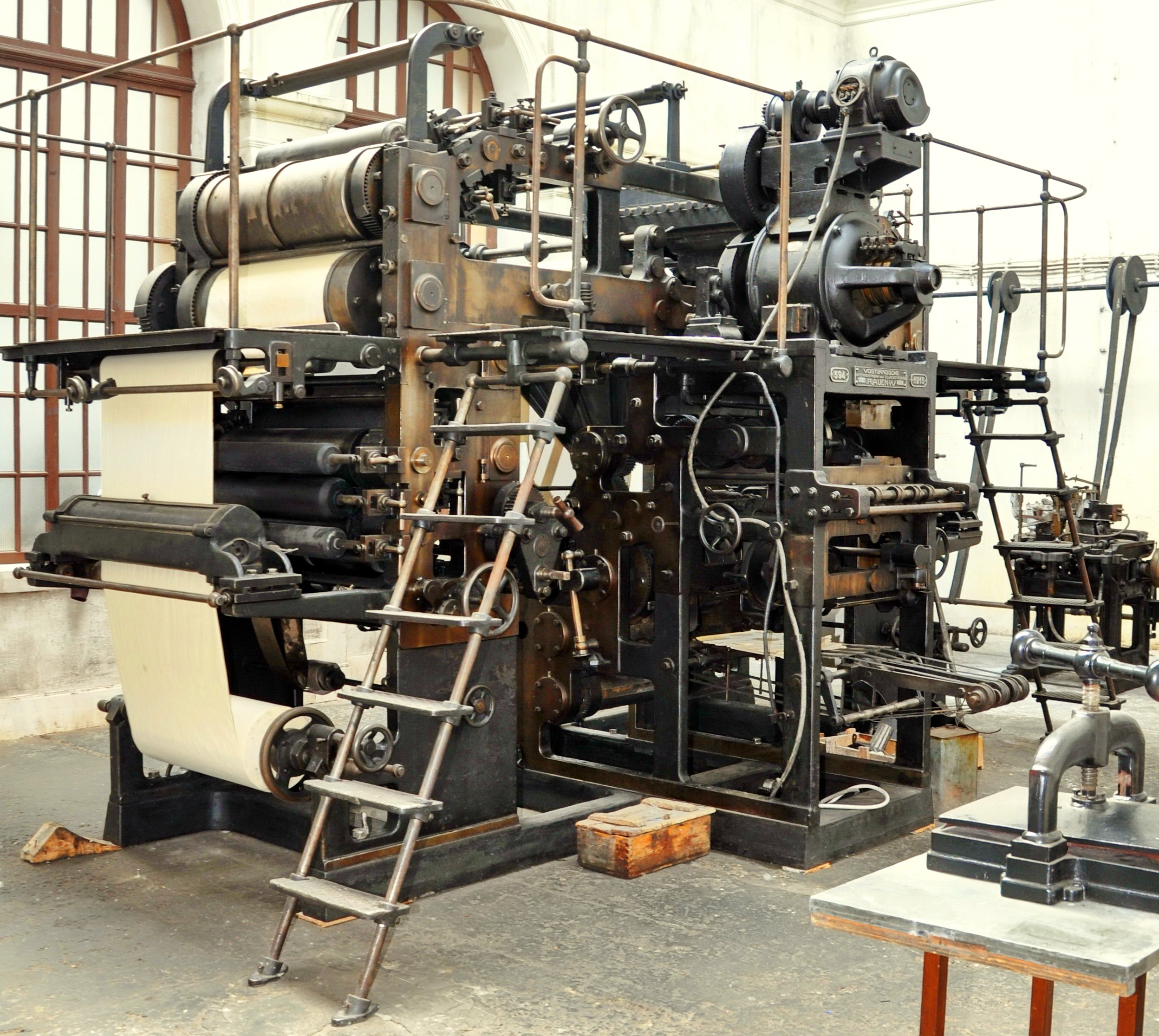 Printing equipment (Rotacija) from 1915. year. This machine was part of printing office in Vlajkovićeva street. Now it is part of Museum of Science and Technology, Belgrade.